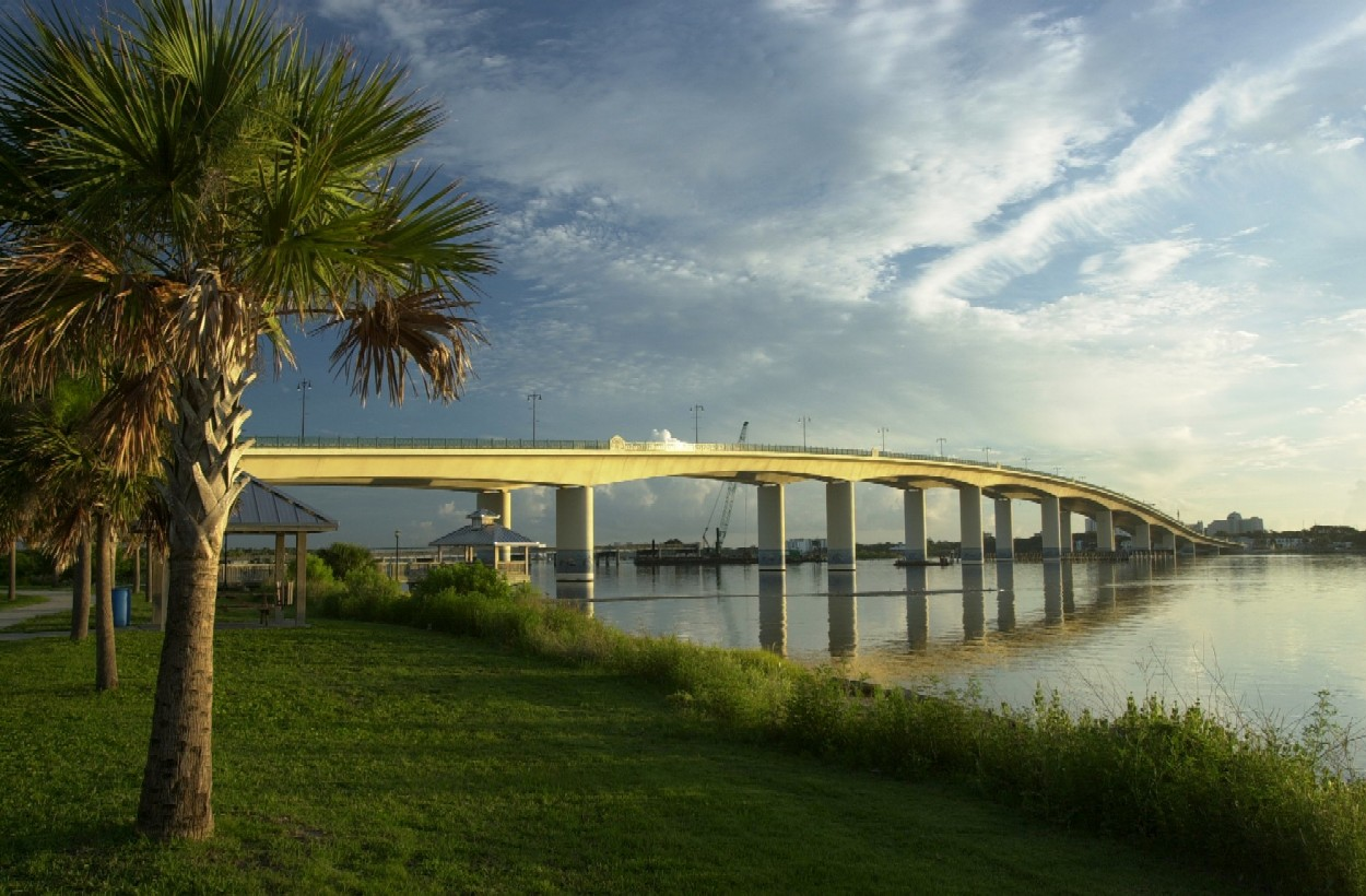 The New Broadway Bridge in Daytona Beach features tile mosaic panels depicting native Florida wildlife along the special handrail of the sidewalks.